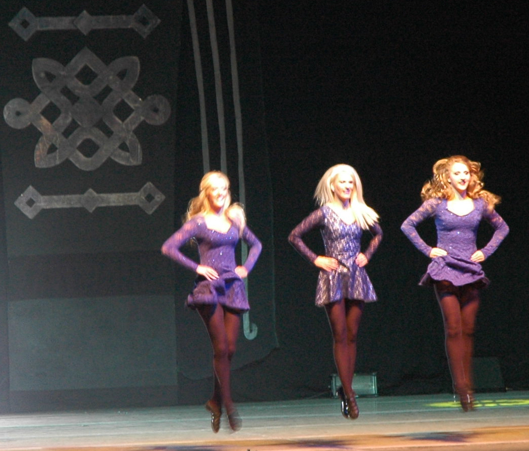 "Lord of the Dance" show of Michael Flatley, part 1 "Cry Of The Celts" with dancing girls.